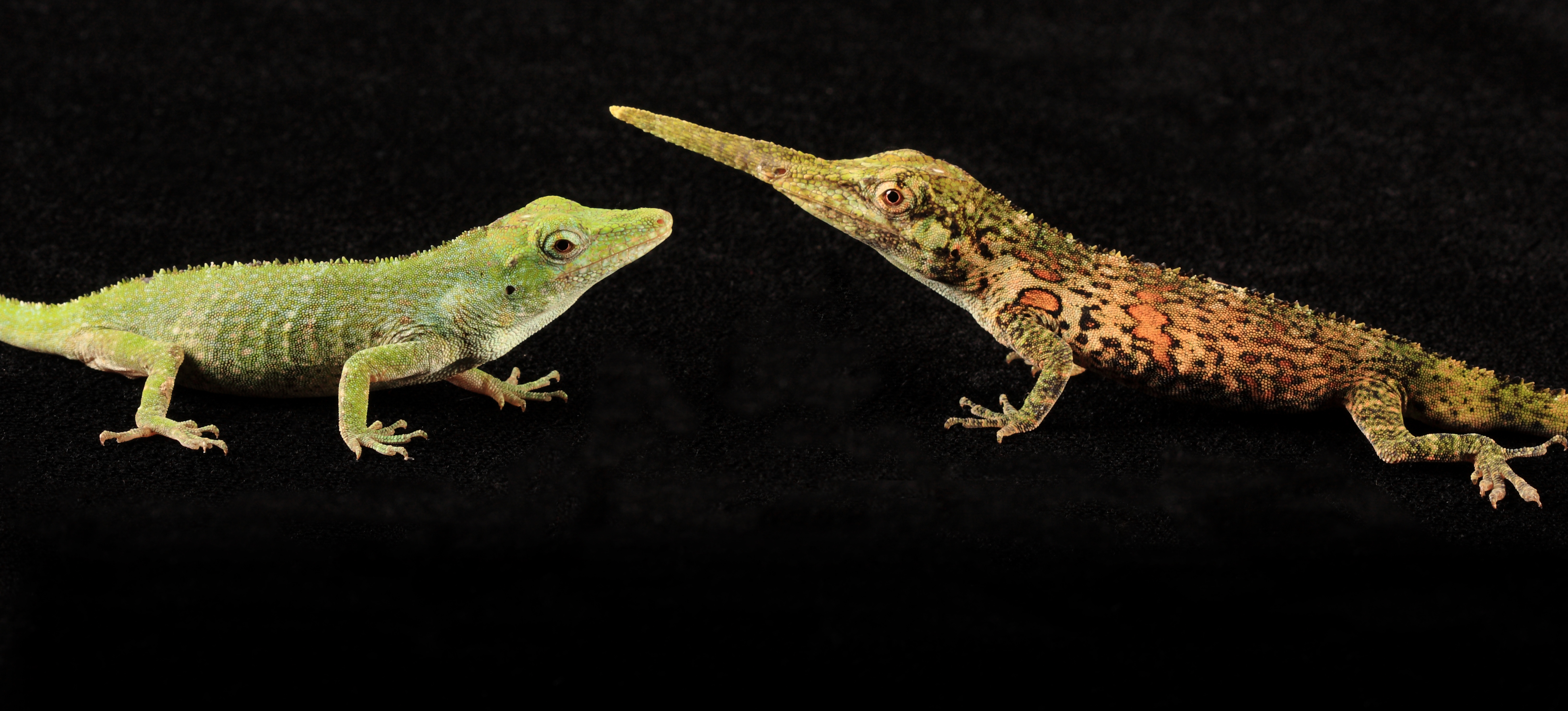 From Mindo, Ecuador. Female (left) and male (right). Sexual dimorphism at its best.